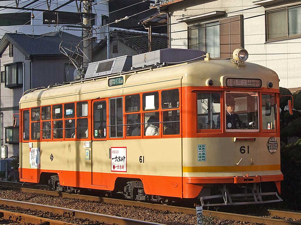 Iyotetsu Mo 50 series tramcar number 61 near Komachi Station